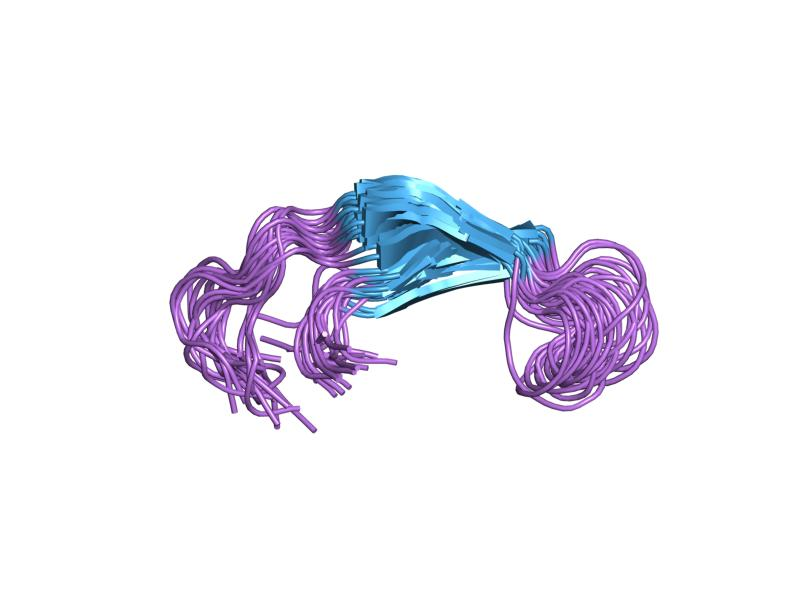 Cartoon representation of the molecular structure of protein registered with 1m4f code.